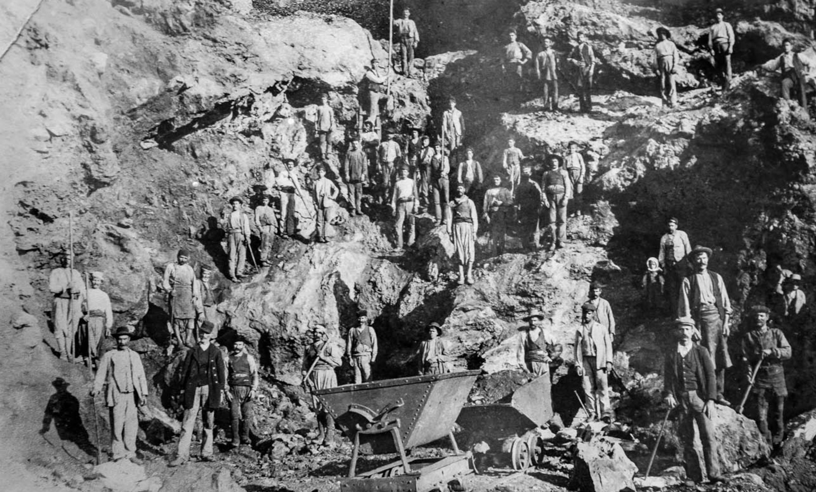 Miners pose outside the iron-ore mines of Serifos (or Seriphos) Island, Greece